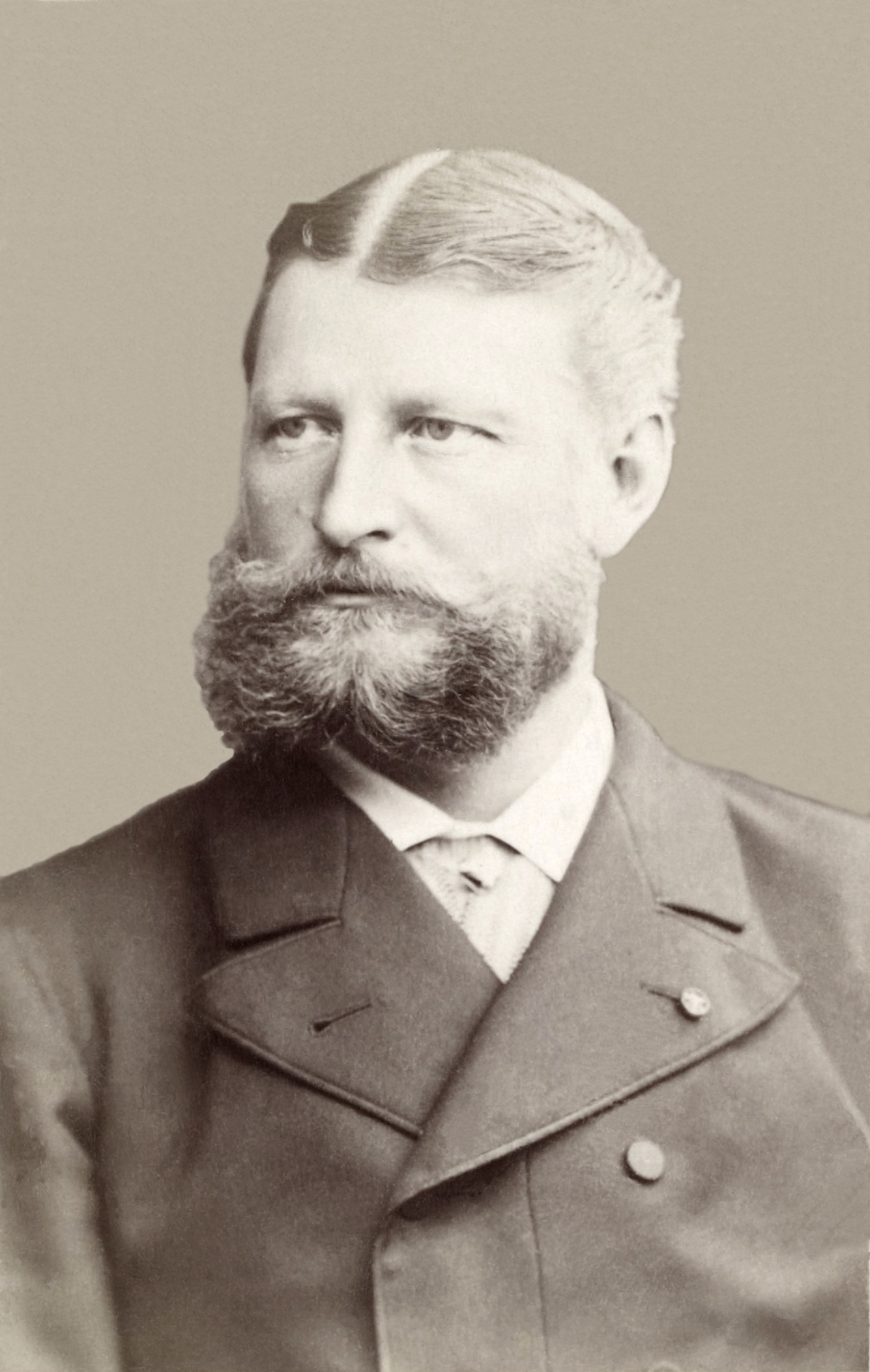 Louis Palander (1842-1920), swedish admiral and explorer.